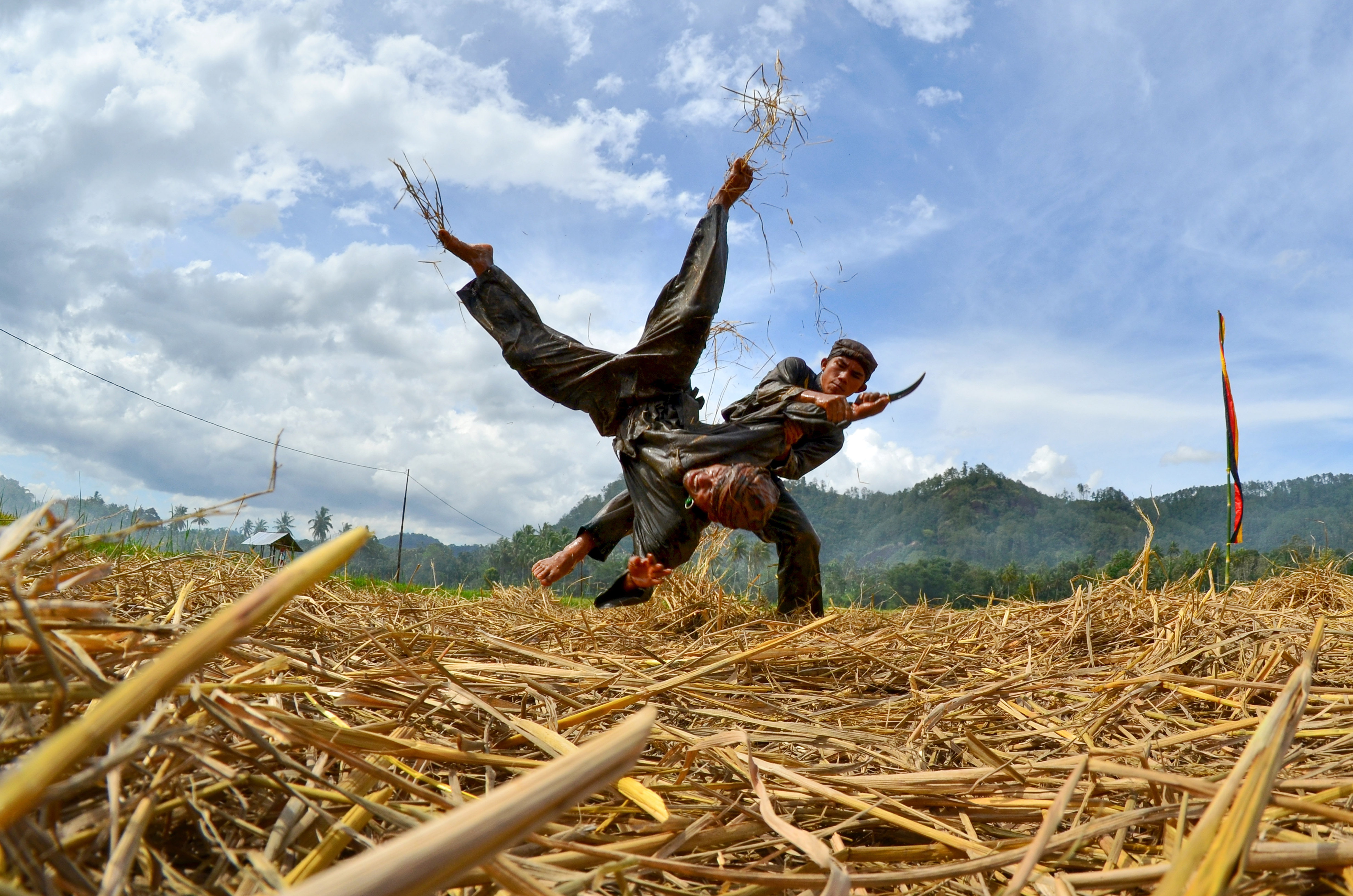 silek or silat is a traditional martial art of cultural heritage of our forefathers of the nation of indonesia. with this martial arts our heroes dare to defend this country from the occupation of a foreign country that wants to dominate our country, now silat / silek has been recognized by the world, namely UNISCO as an intangible world heritage from Indonesia. Silek / Silat Martial Arts is now widely enjoyed by the community and even foreign people who come to Indonesia and want to learn it